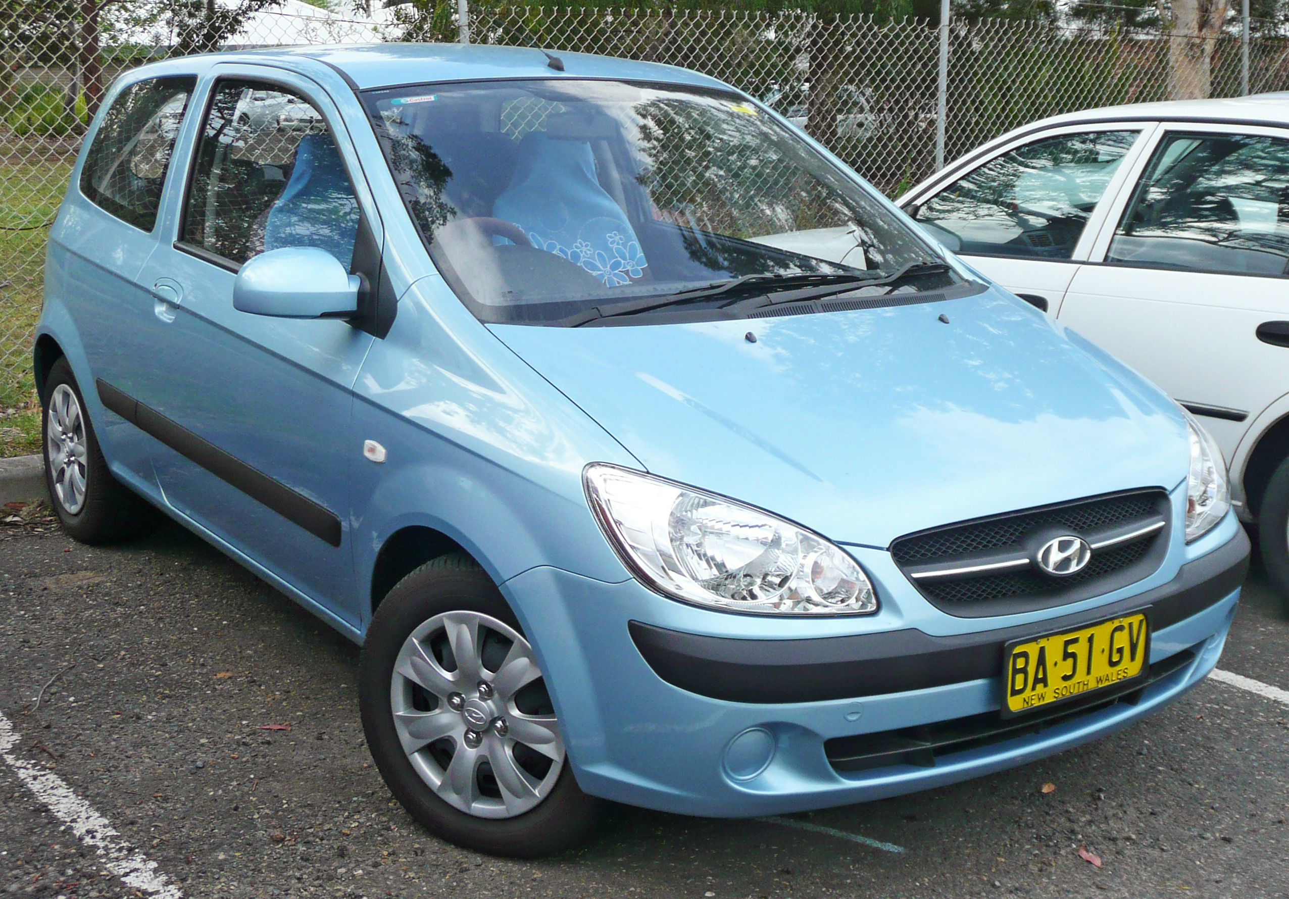 2009 Hyundai Getz (TB MY09) S 3-door hatchback. Photographed in Loftus, New South Wales, Australia.